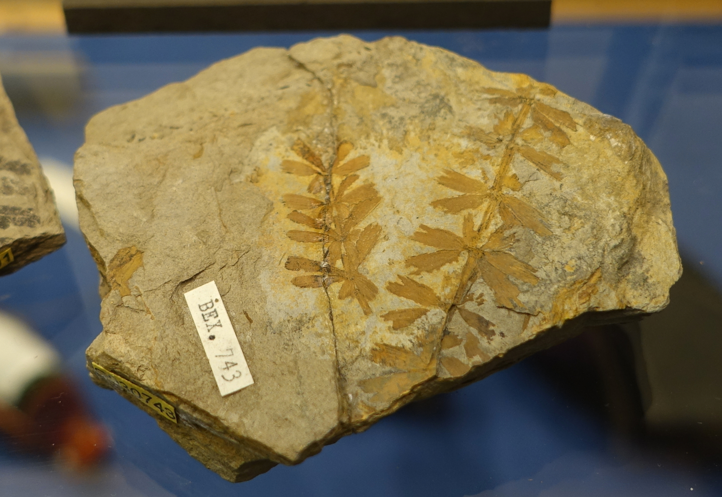 Exhibit in the Swedish Museum of Natural History - Stockholm, Sweden.